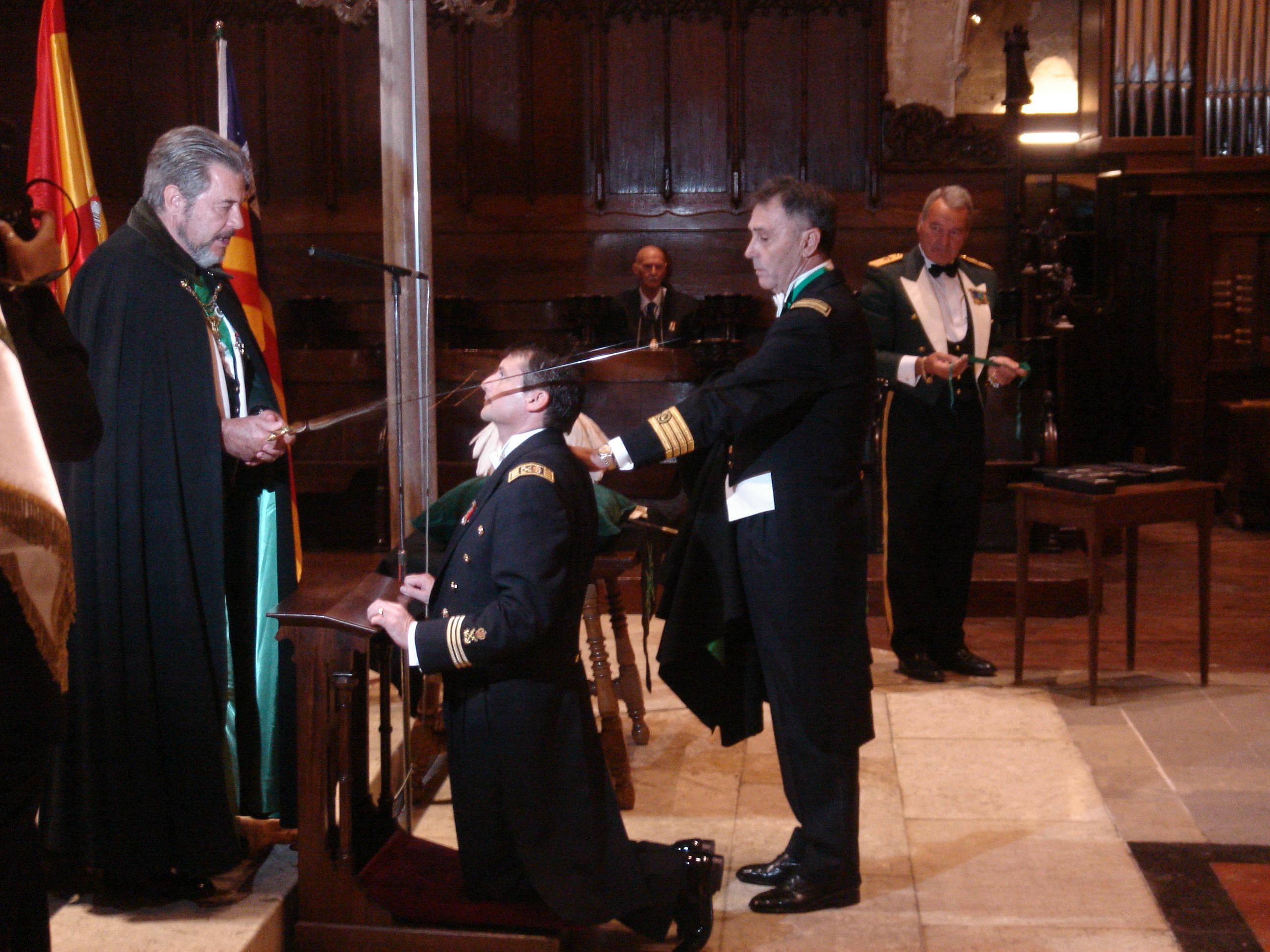 Chevalier Jacques Beruck + Duke of Sevilla